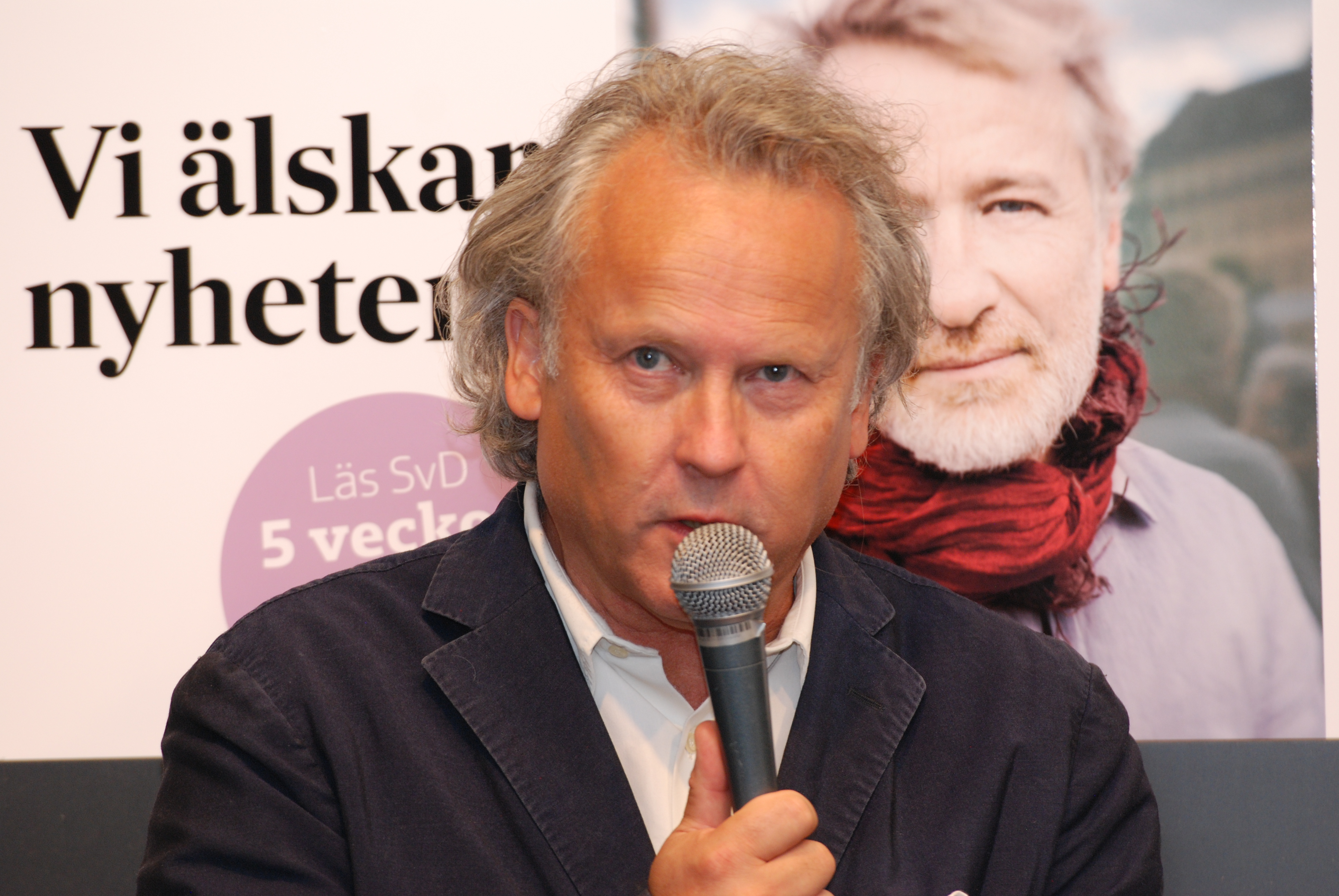 The Swedish writer Klas Östergren at Göteborg Book Fair 2014.